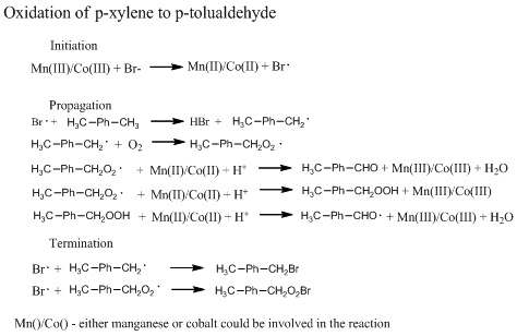 The proposed radical pathway from p-xylene to p-toluic acid